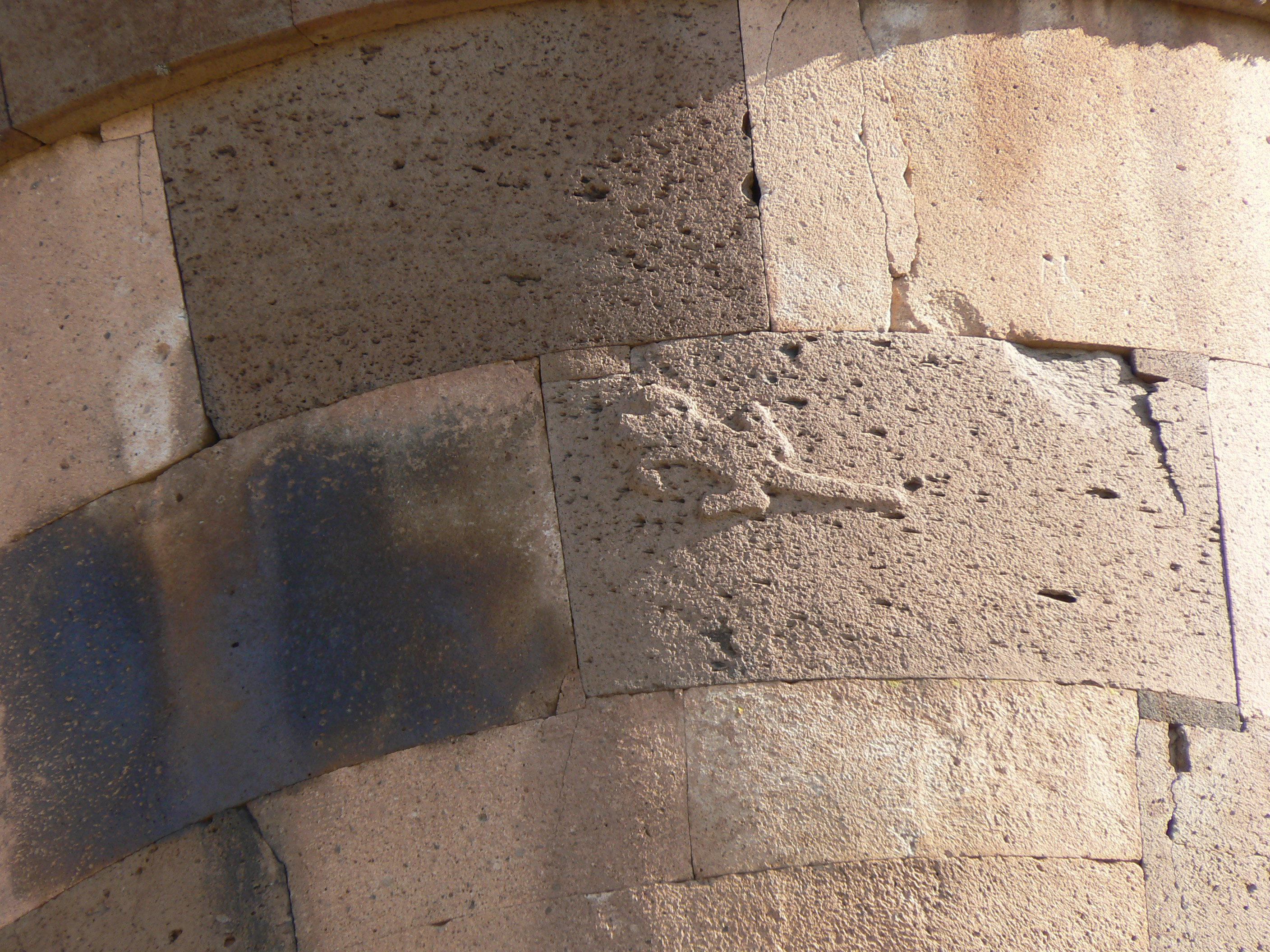 Detail of iguana relief on a chullpa funerary tower at Sillustani near Puno, Peru.